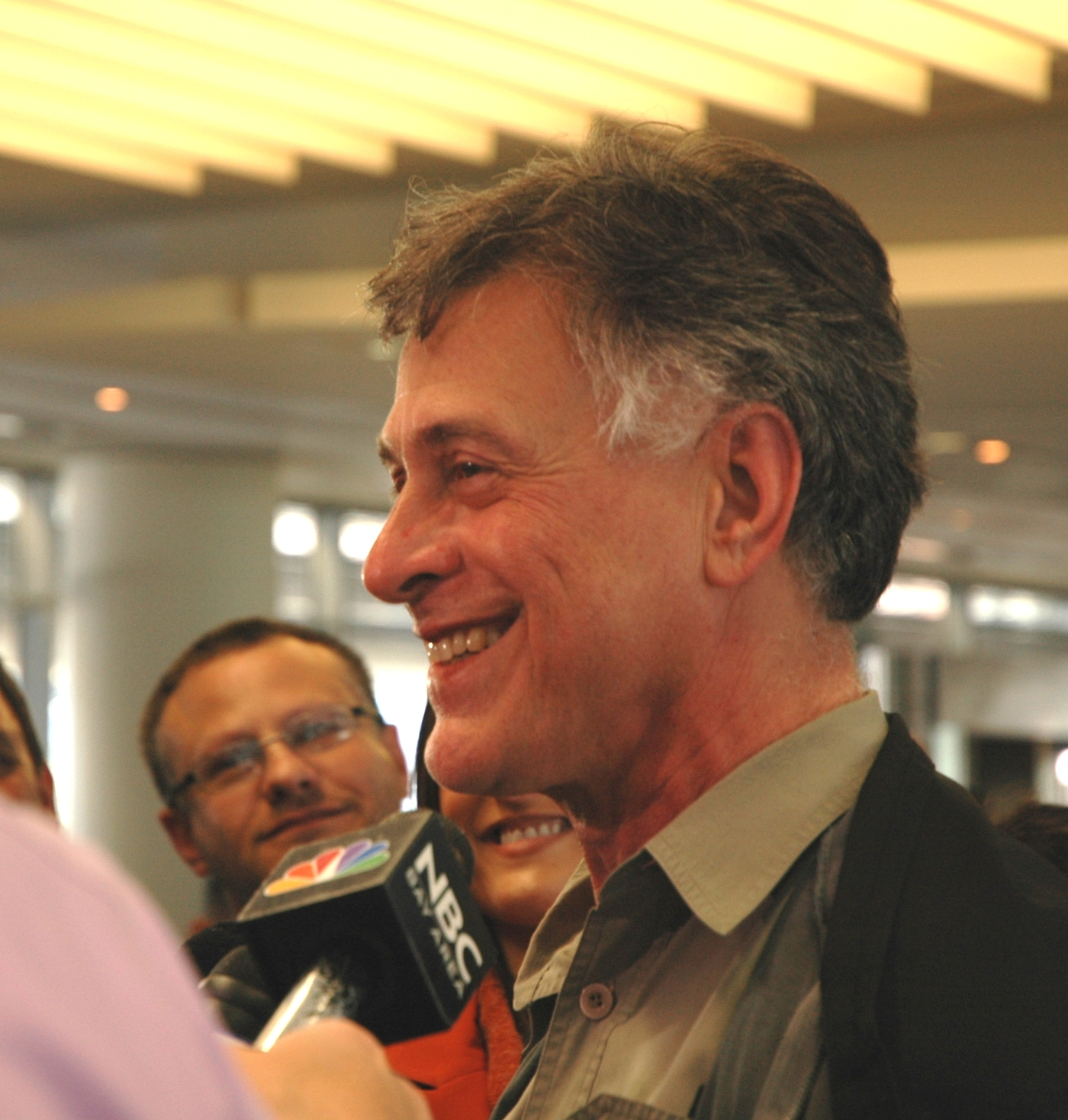 Paul Larudee being interviewed by reporters at the airport on his return from detention in Israel.